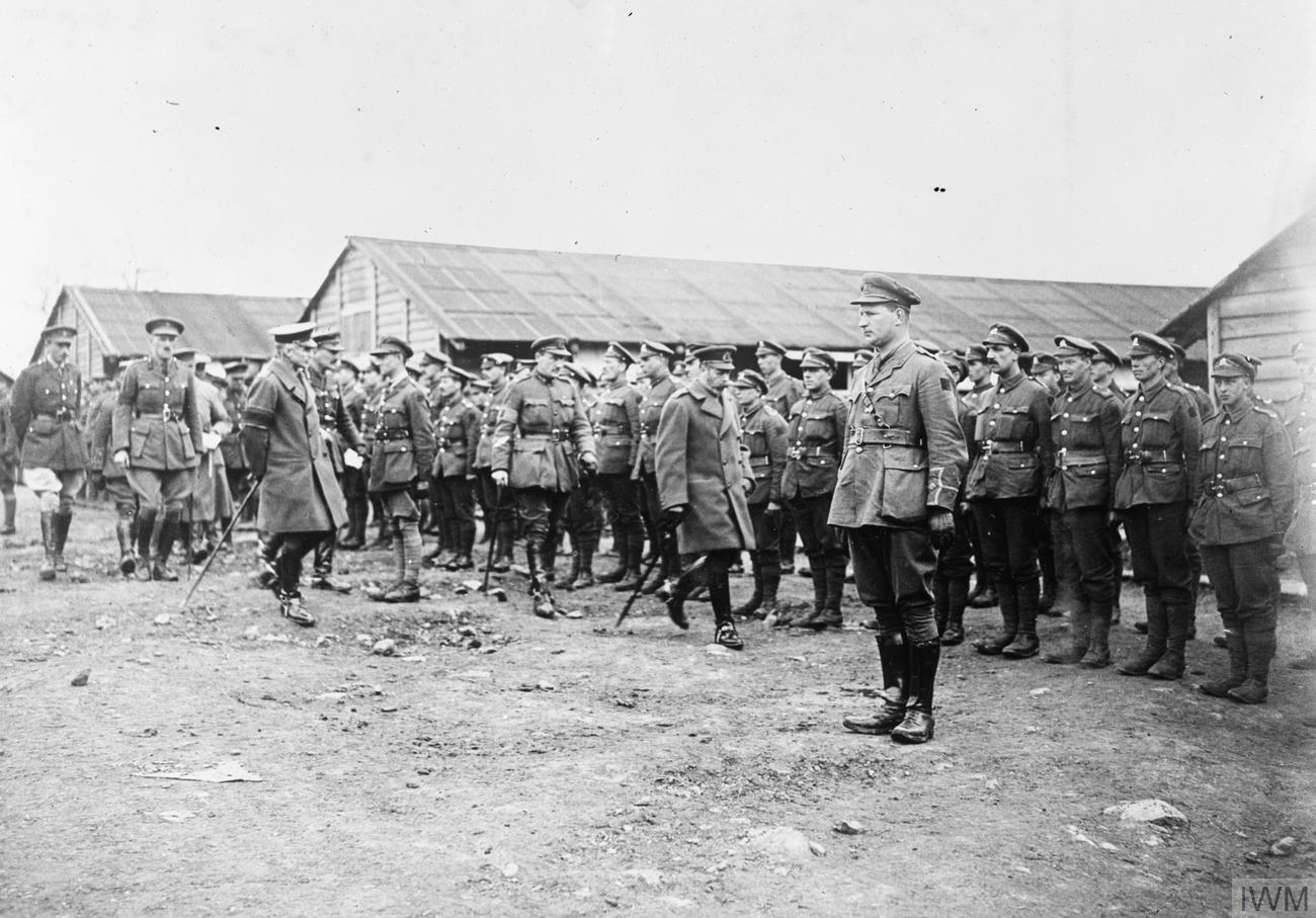 The German Spring Offensive, March-july 1918 King George V and General Henry Horne Horne, the Commander of the 1st Army, inspecting the 2/6th Battalion, South Staffordshire Regiment (59th Division) at Gauchin, 30th March 1918. They are accompanied by Brigadier General T. G. Cope, the Commander of the 76th Brigade, and General Cecil Romer, the Commander of the 59th Division.